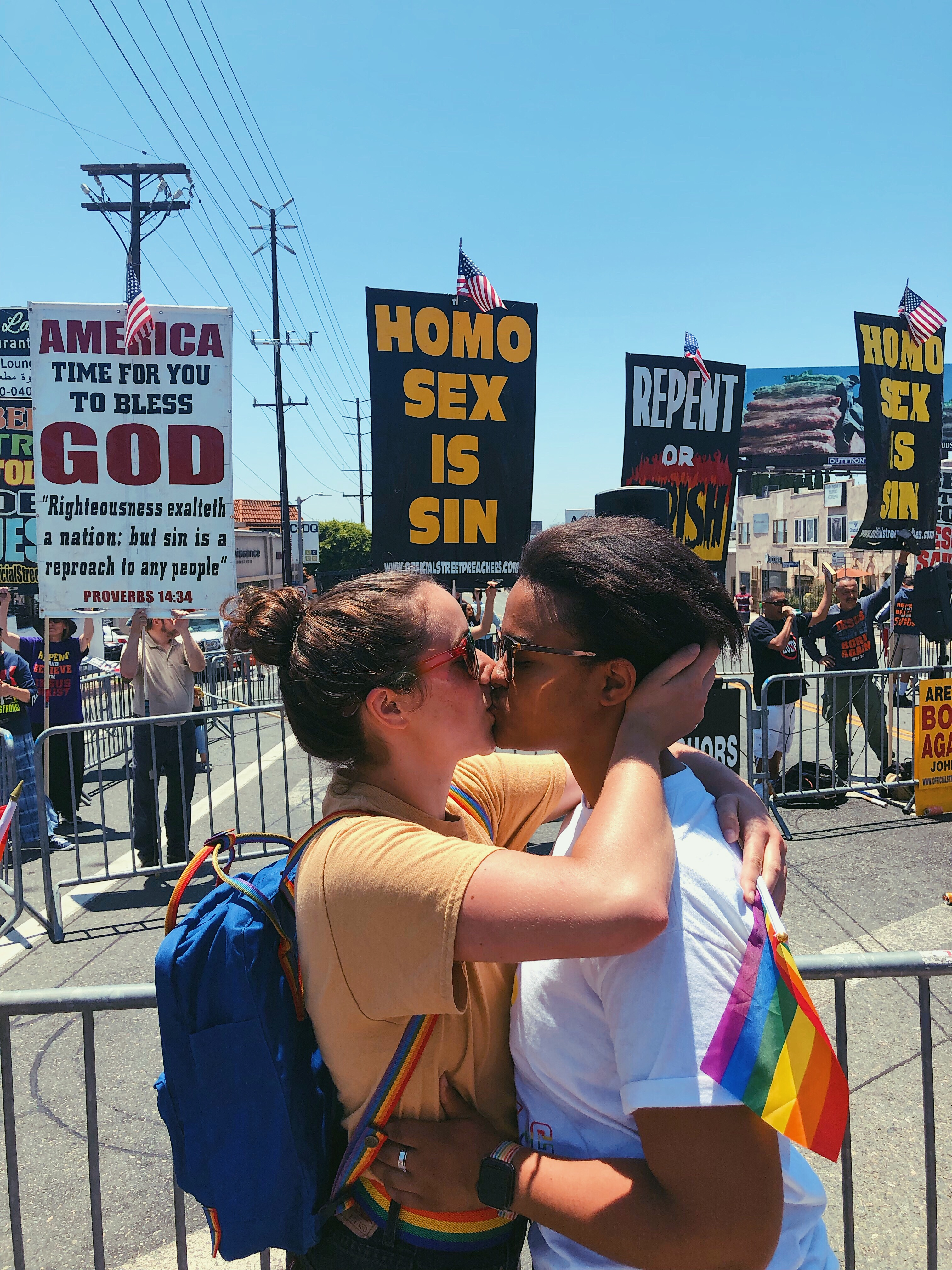 A young lesbian couple kissing in front of protesters shouting homophobic insults during the Los Angeles Pride Parade